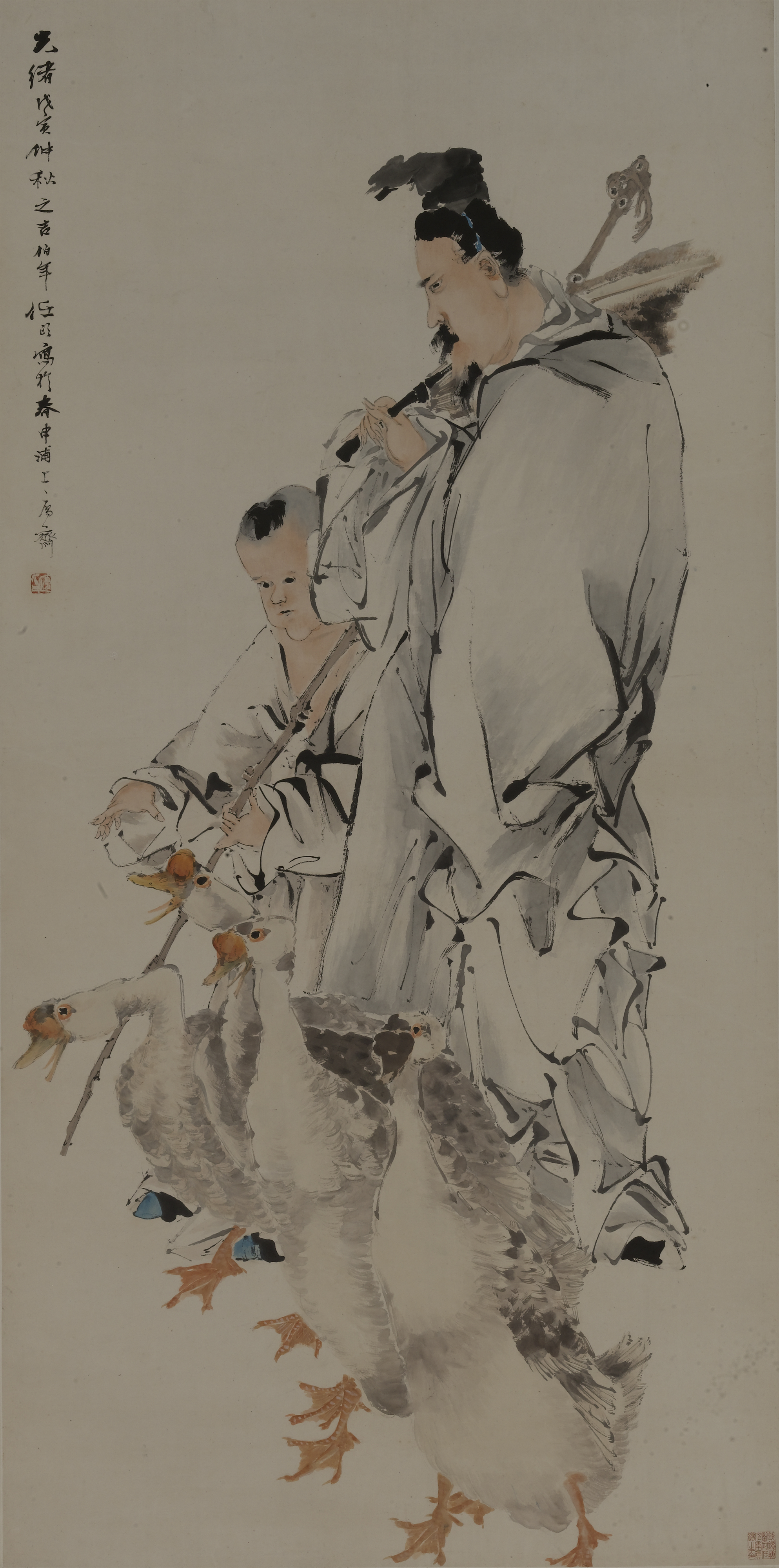 "Wang Xizhi of the Eastern Jin dynasty in the fourth century was the Sage of Calligraphy. His contemporaries vied with one another to obtain pieces of his calligraphy, whether letters or transcriptions of texts. A Daoist bent on owning his calligraphy bred a flock of geese, knowing Wang enjoyed watching them and eating them – their necks inspired him to hold the writing brush in a novel way. Wang agreed to an exchange and spend the day writing calligraphy for the man. In this scene, Wang and his son, the future cursive master Wang Xianzhi, carefully guide the geese home before sundown." —Chester Beatty Library